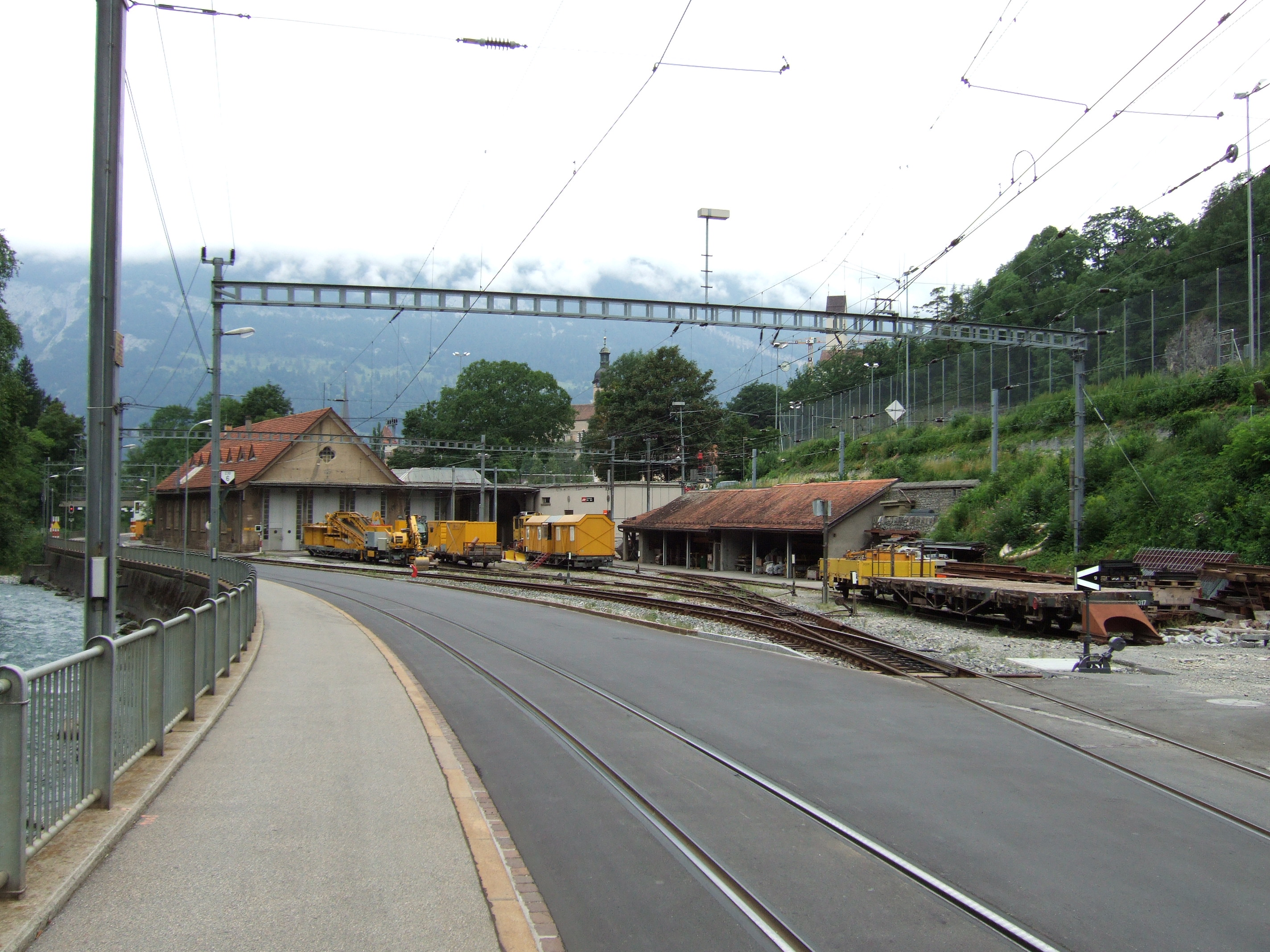 Chur Sand depot in 2009